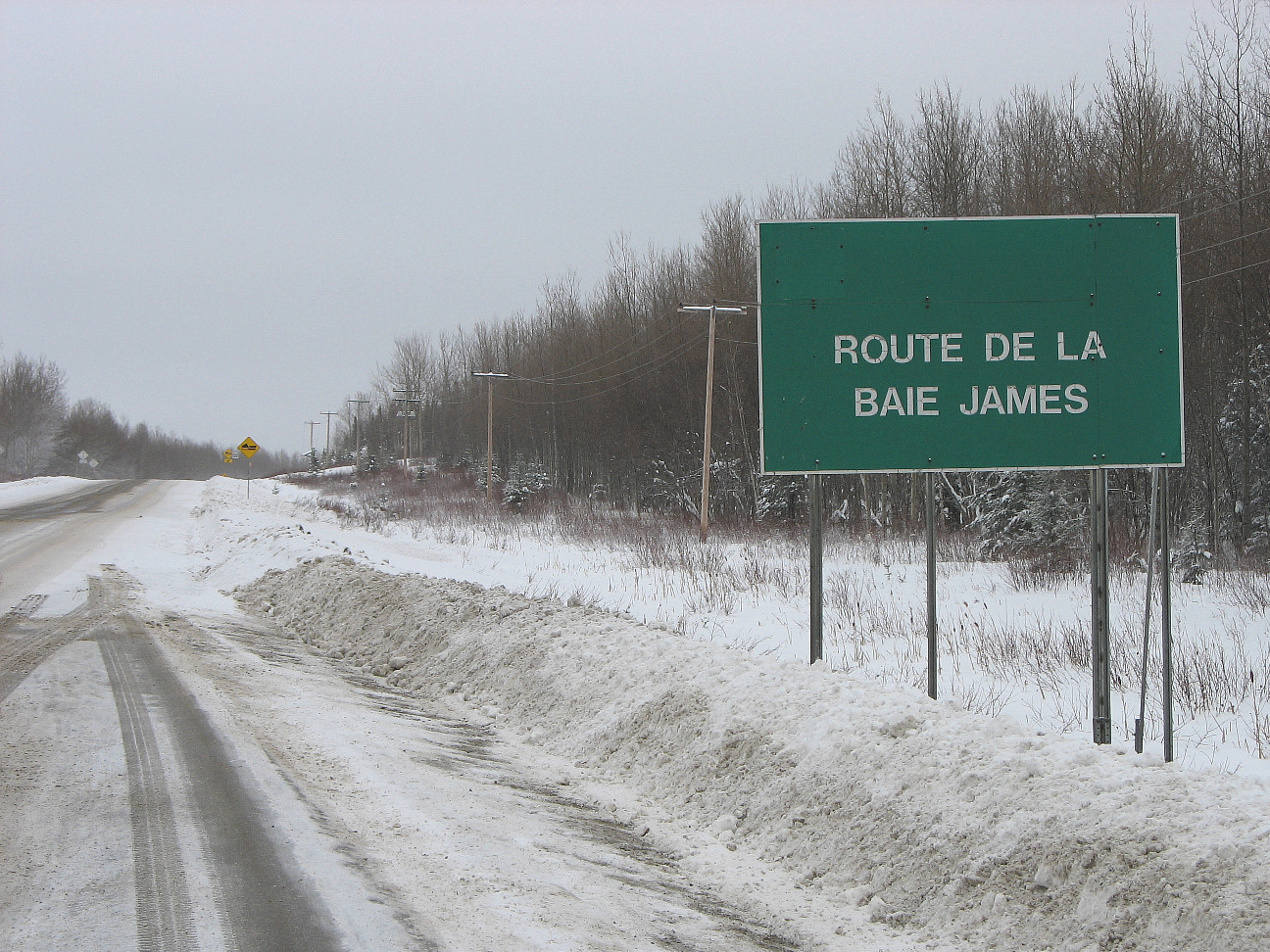 Start of the James Bay Road near Matagami, Quebec, Canada